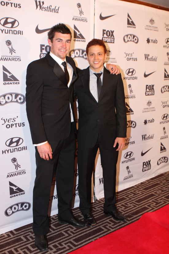 Mathew Ryan and ??? at Australian Football Awards 2011